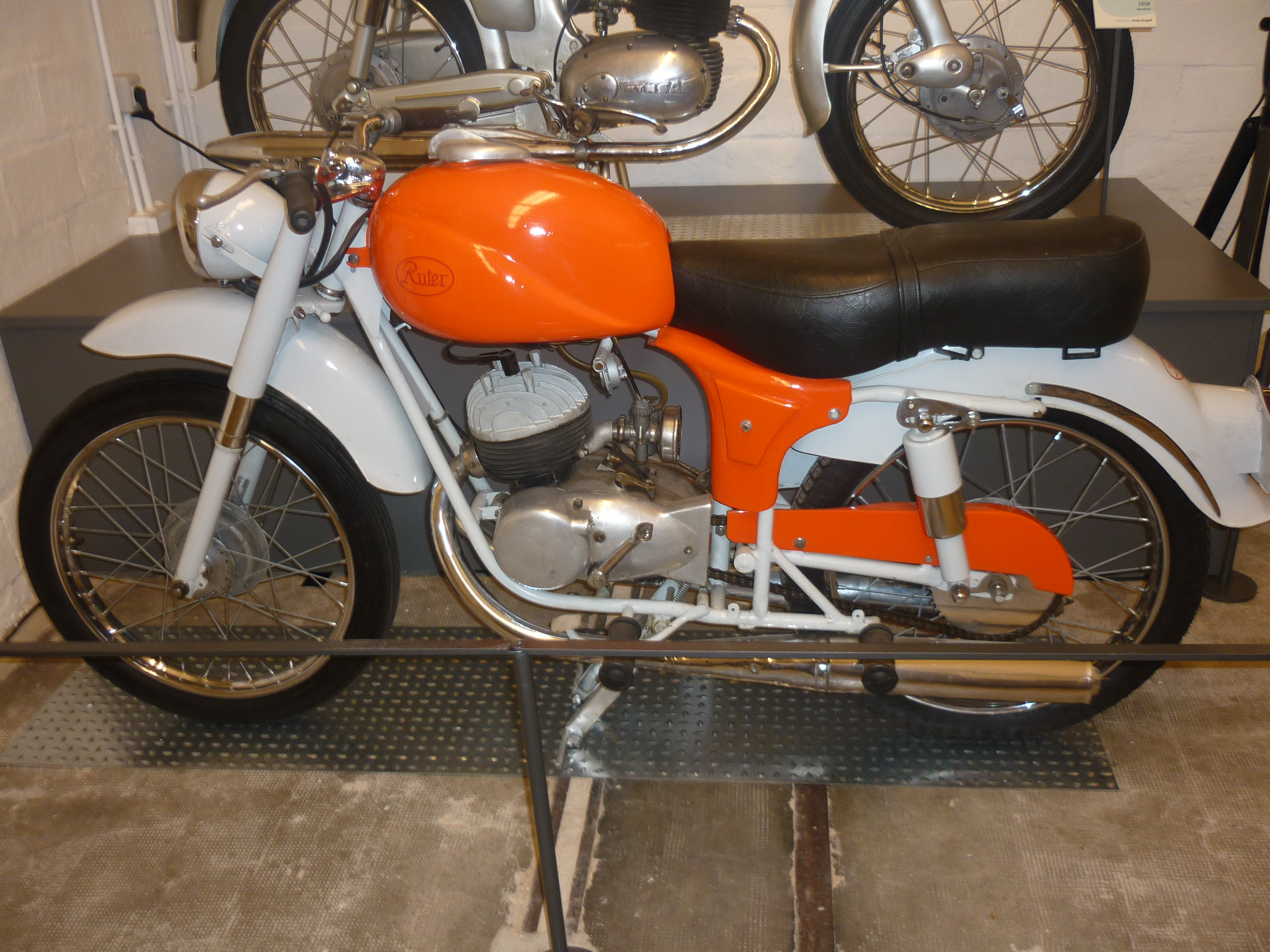 Ruter 125cc (1958). Museu de la Moto de Barcelona (Catalonia).